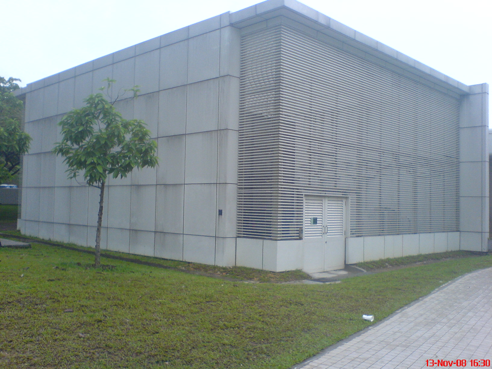 new ventilation shaft at Dhoby Ghaut MRT Station for the Circle Line